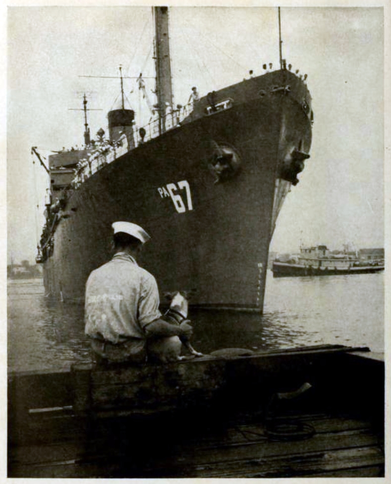 The "Burleson," arriving home from Bikini, symbolizes a cogent truth: The problems with which the atomic bomb confronts us do not, after an Operation Crossroads, remain behind, imprisoned within the coral bounds of a remote Pacific atoll. At Bikini ships were sent to the bottom; the problems were not. As examples of man's scientific skill and cooperativeness the atomic bomb, and Operation Crossroads, are unrivalled. To those who direct man's humanitarian destiny the challenge is clear.